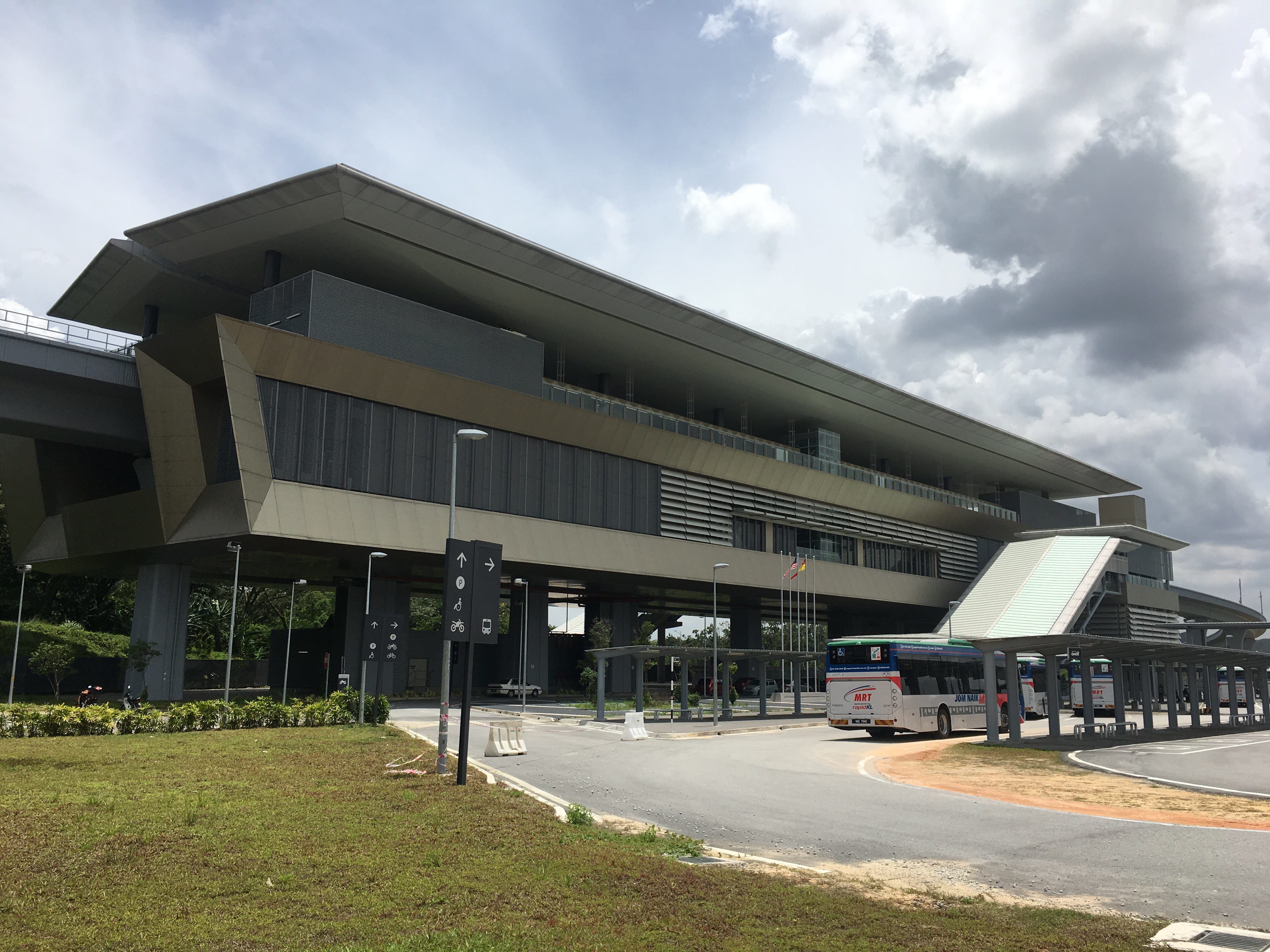 Kwasa Sentral MRT Station